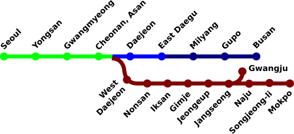 KTX network diagram